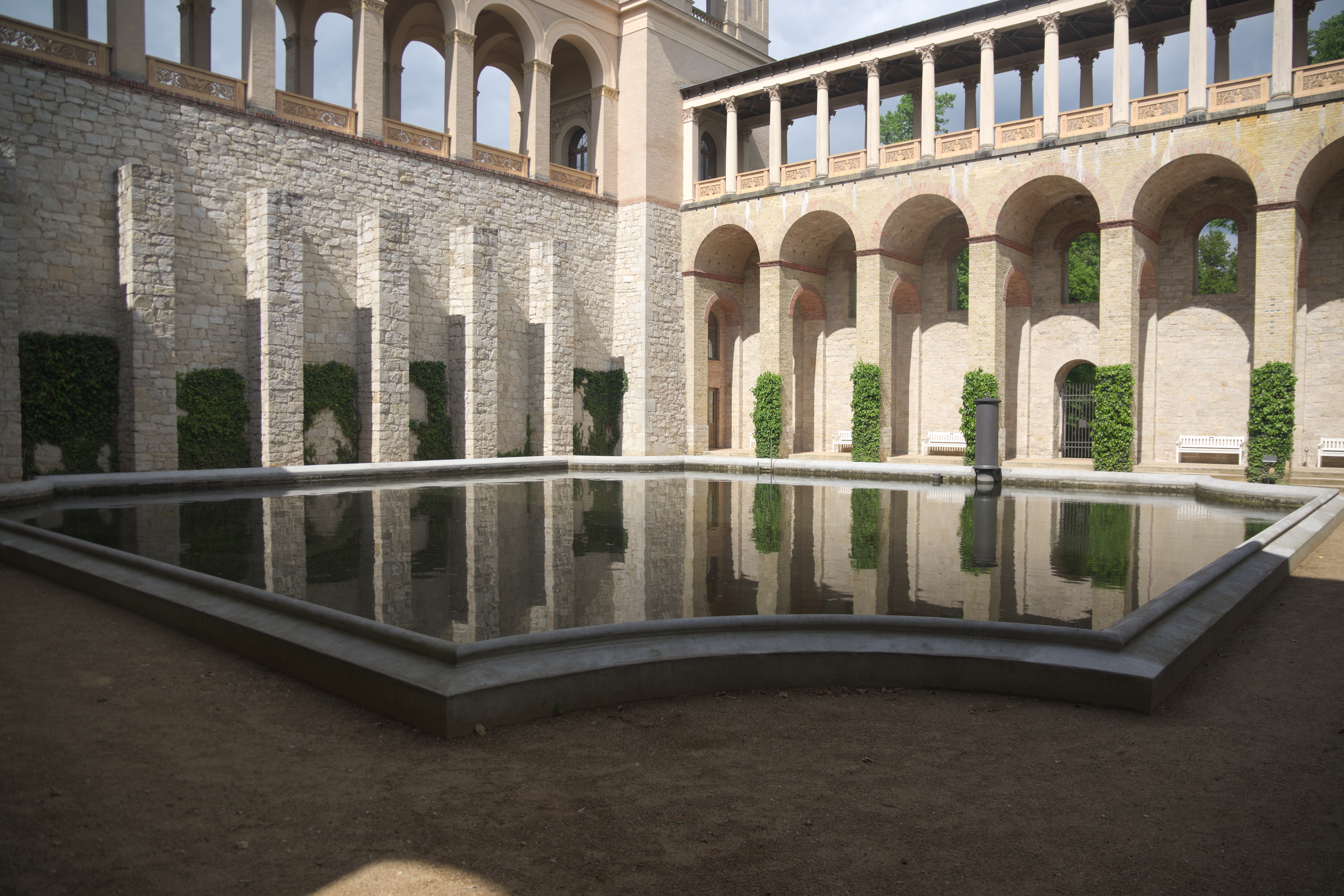 Wikimedia Conference 2015 photo by Pine